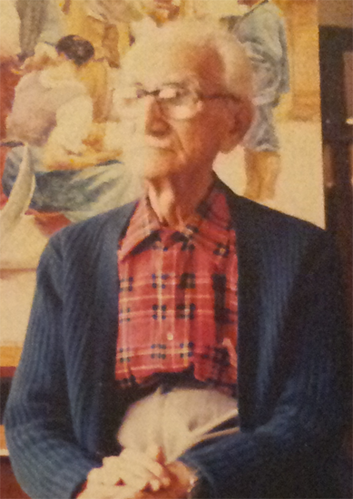 Ali Mohammad Heidarian